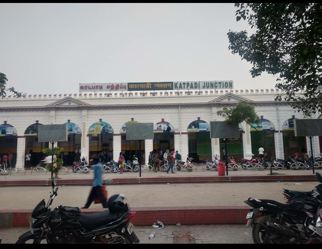 Katpadi Junction station